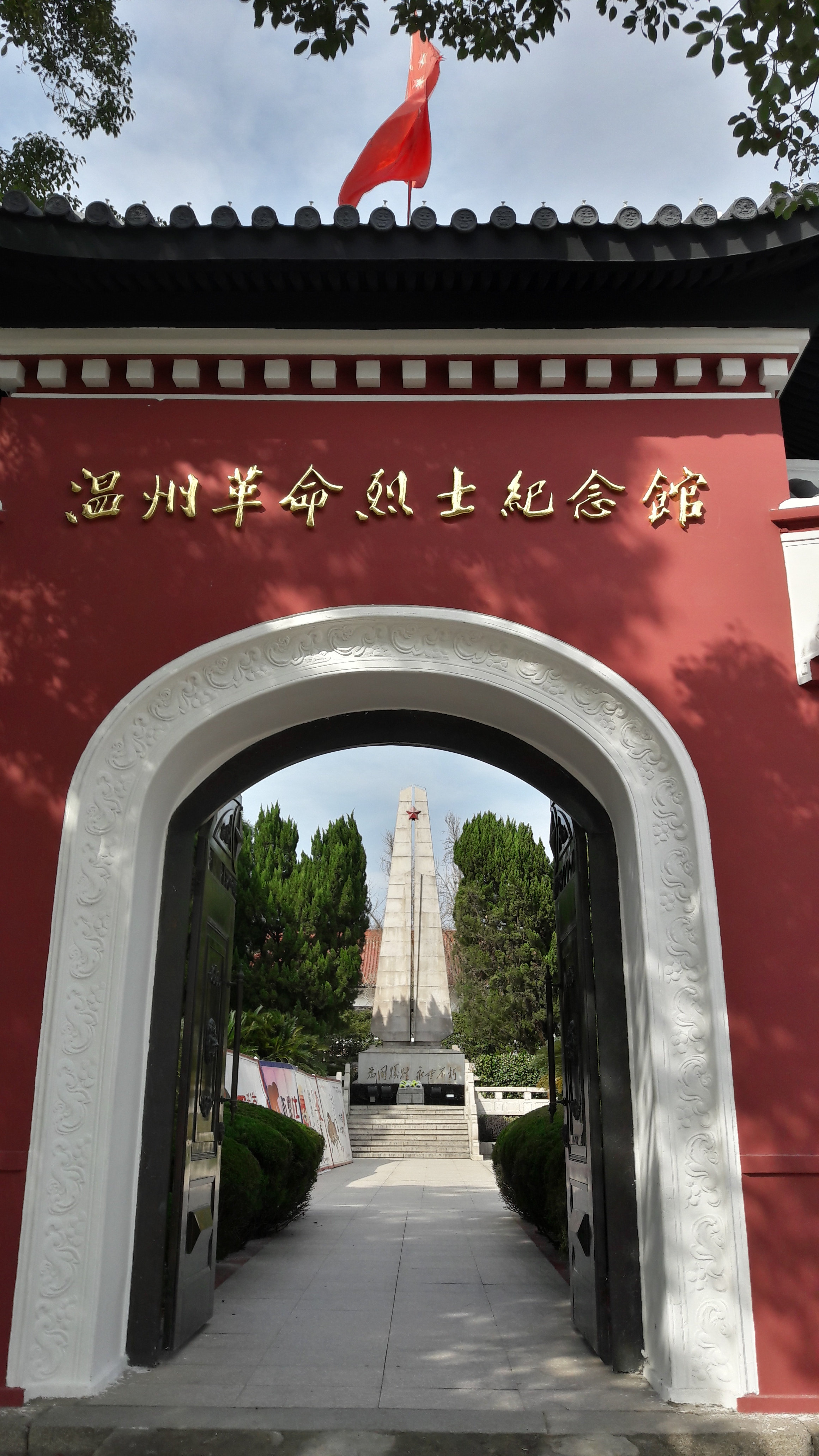 Wenzhou Revolution Martyrs Memorial (温州革命烈士纪念馆), on Jiangxin Island, in Wenzhou